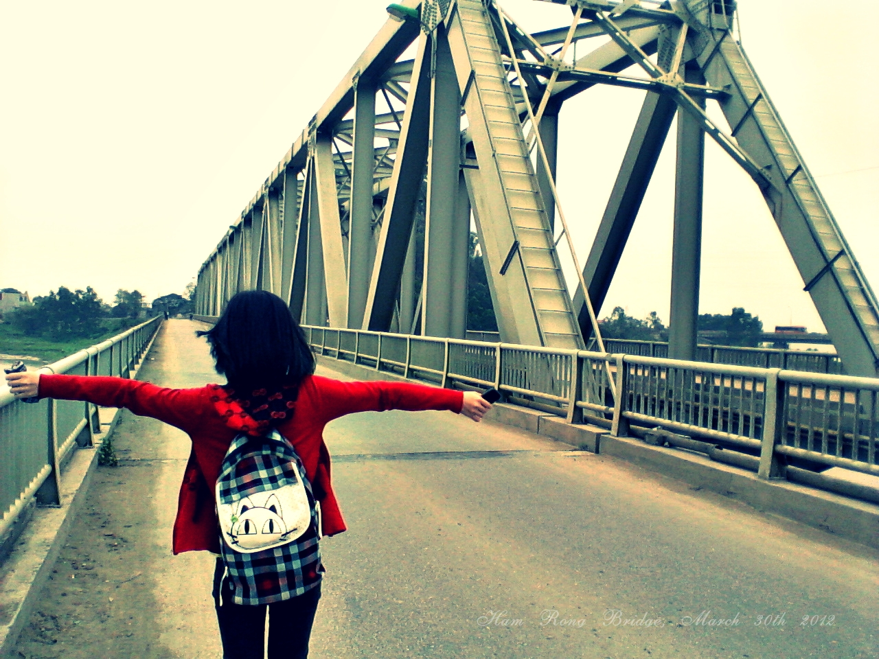 Cầu Hàm Rồng!